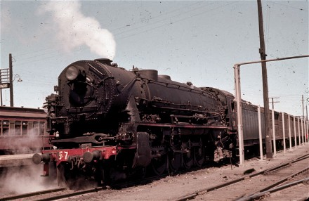 5711 stands in Junee Yard ready to head north